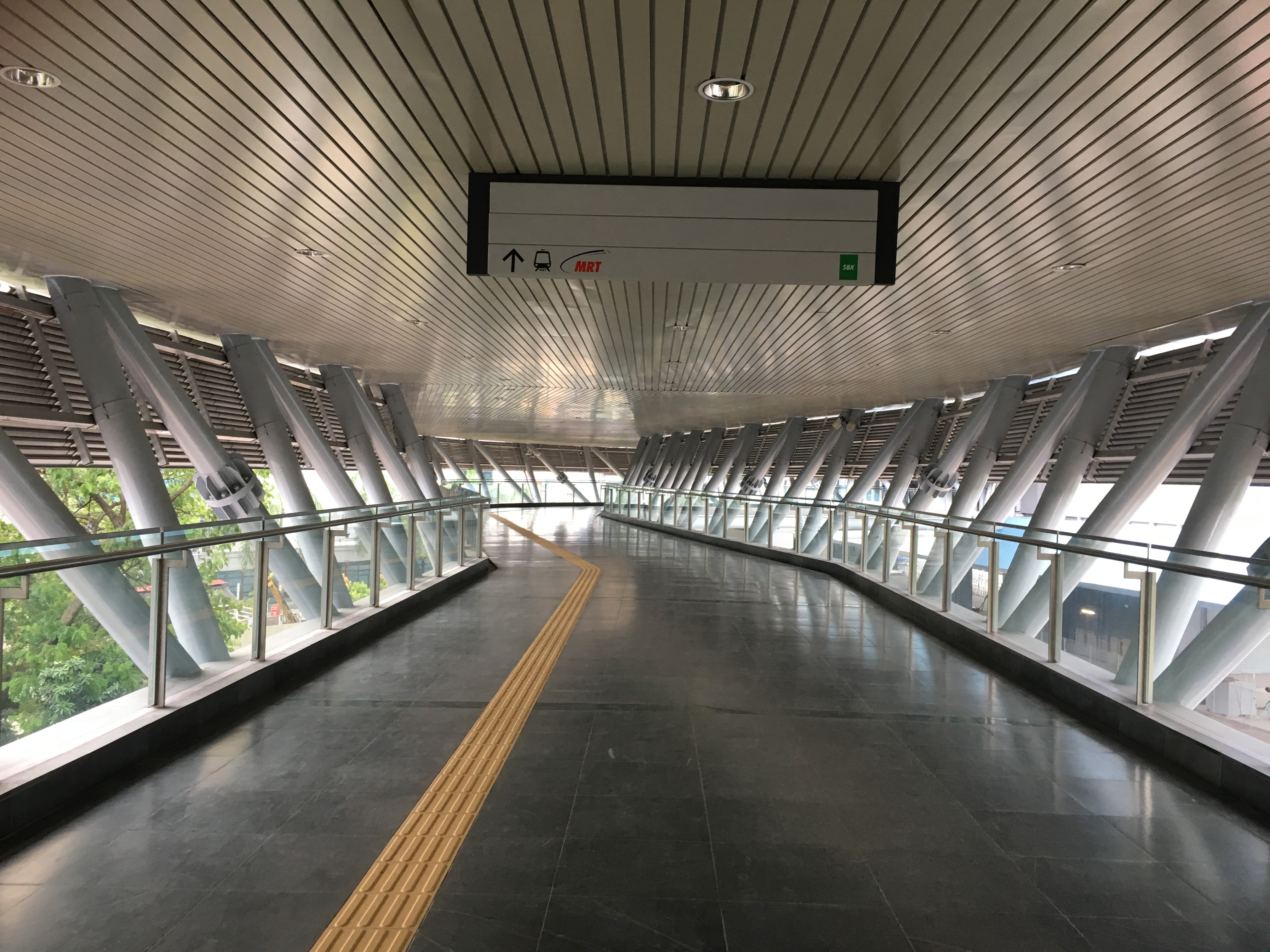 Pedestrian link bridge from the 1Powerhouse building to the Bandar Utama MRT Station.